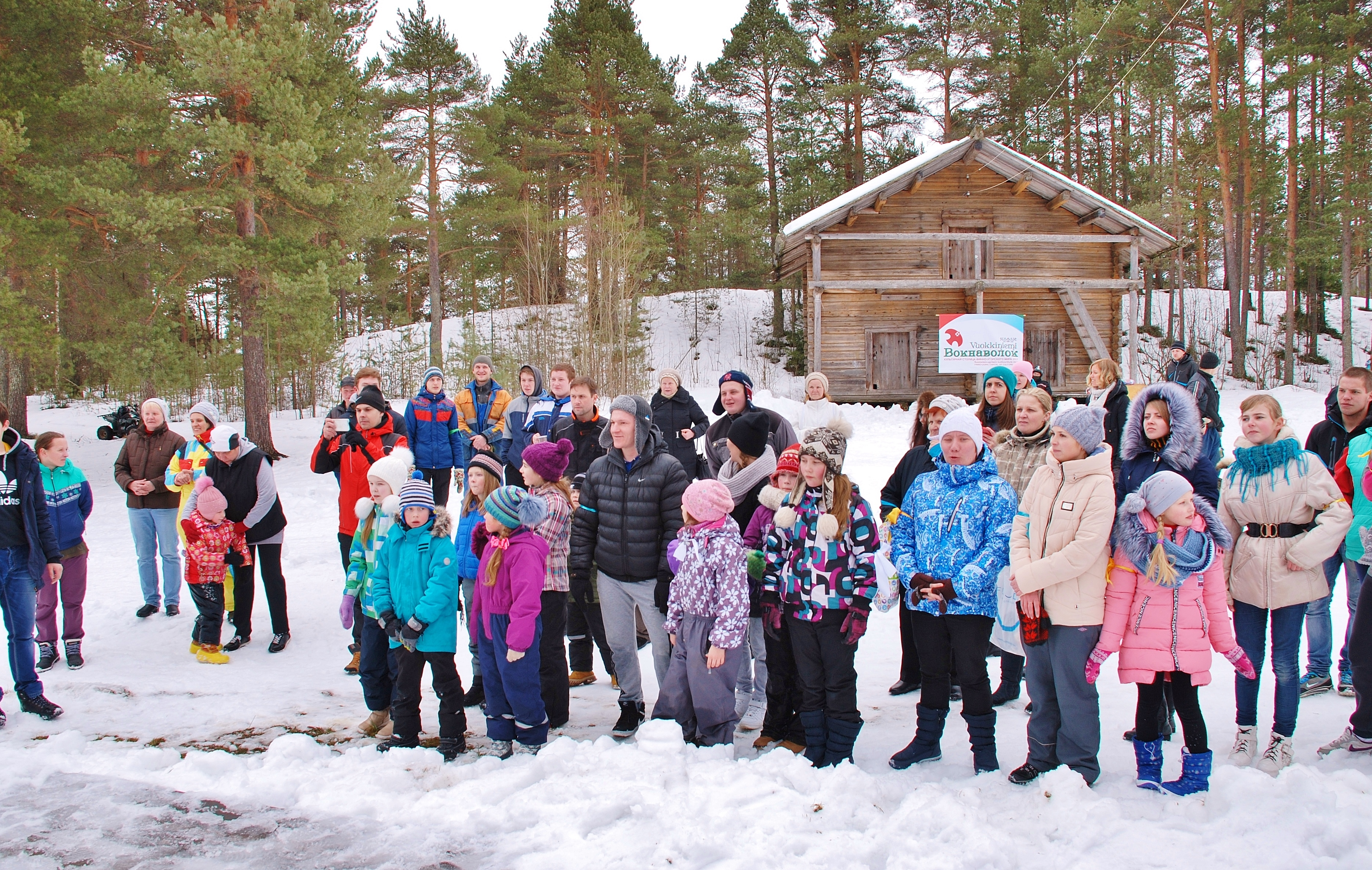 Guests of the holiday. Funny competitions «Games of heroes of the epic Kalevala» based on the Karelian-Finnish epos «Kalevala» in the «Cultural Capital of the Finno-Ugric World in 2017». Vuokkiniemi (Voknavolok). 18 March 2017.